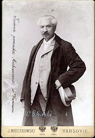 Cyprian Godebski (rzeźbiarz)